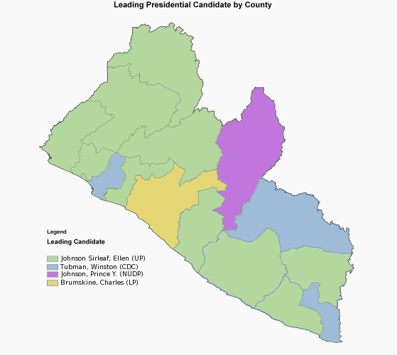 A map of the 1st round results of the 2011 Liberian presidential election, with the winner of the most votes in each county indicated by color.